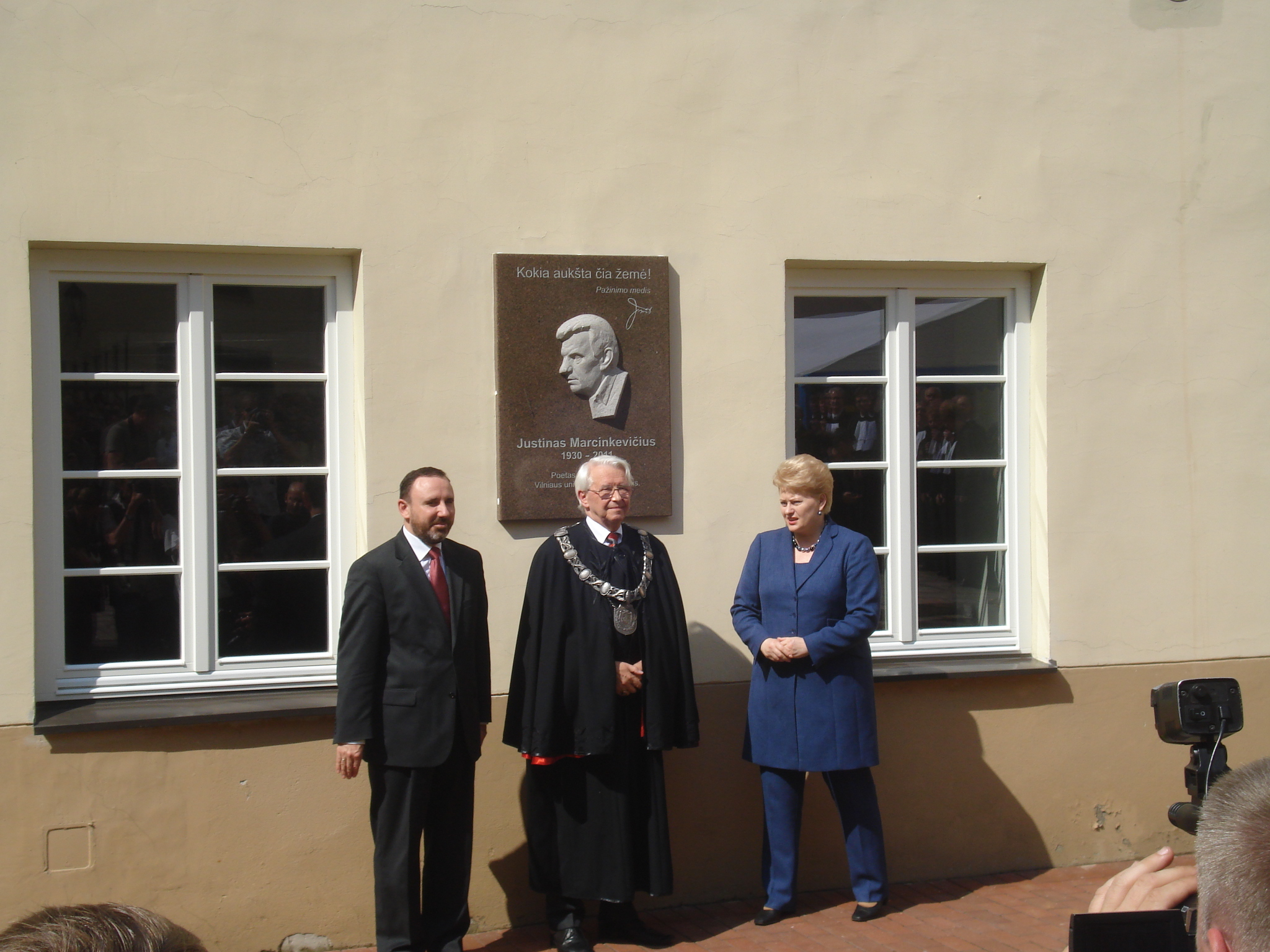 Benediktas Juodka, Arūnas Gelunas, Dalia Grybuaskaitė during the ceremony of the opening of the memorial plaque in memory of Lithuanian poet Justinas Marcinkevičius in Sarbevijus' courtyard (Vilnius University)